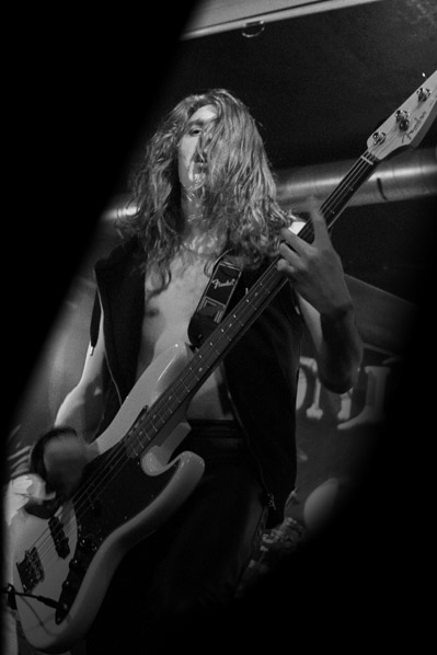 Rudi Golimo Olsen live on bass with Tonic Breed, 2013